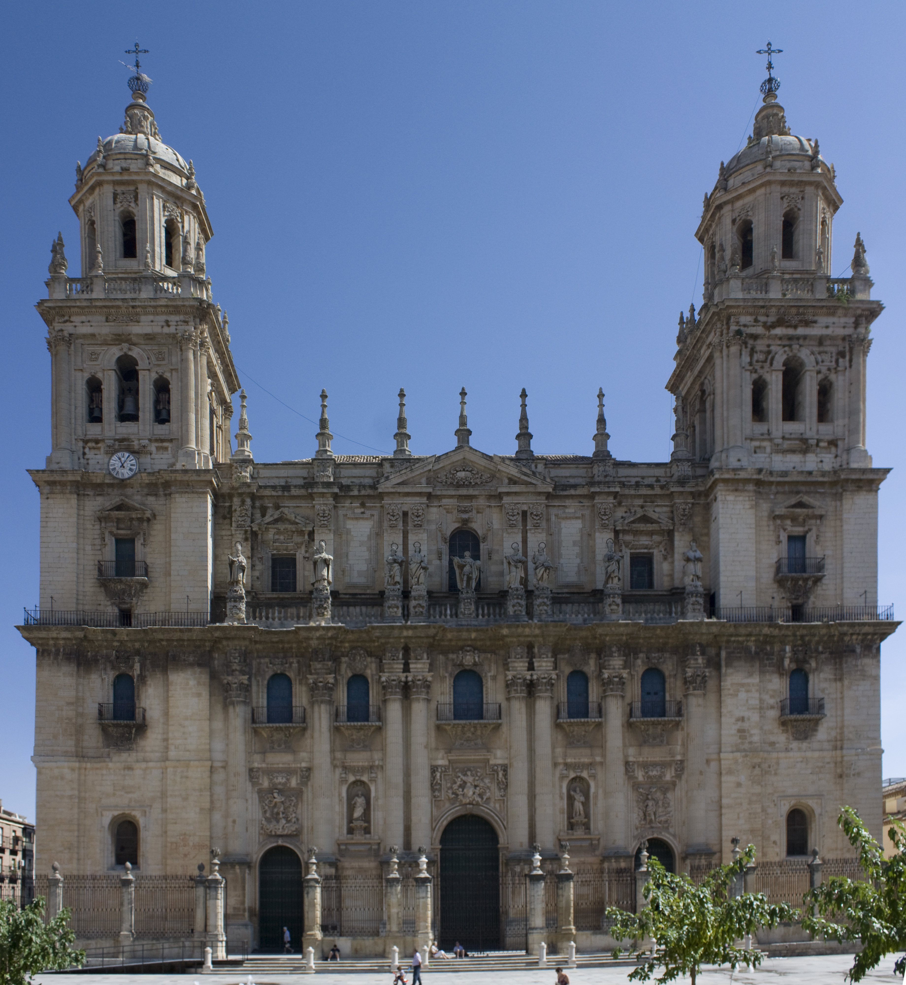 The Assumption of the Virgin Cathedral, view from the Bishop Gonzales' street.